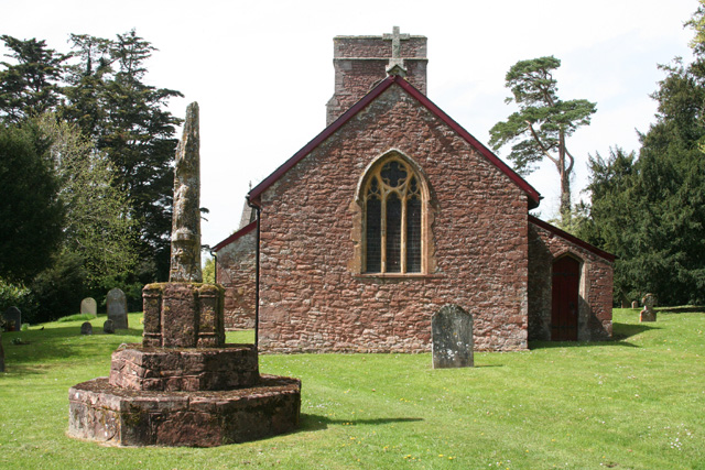 Parish church of St John the Baptist and (left foreground) Medieval churchyard cross, Heathfield, Somerset, seen from the east